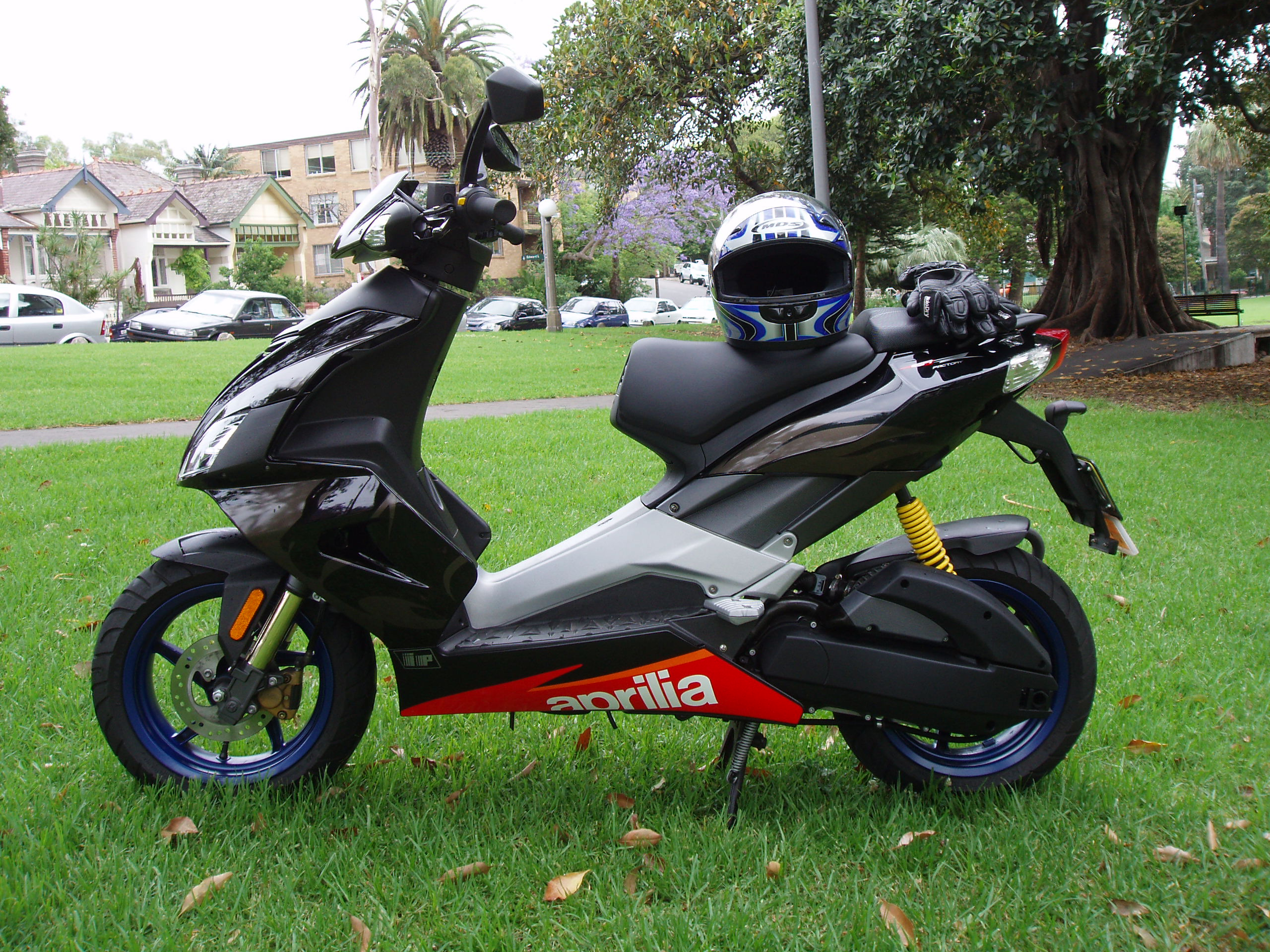 A side-view of my 2006 Aprilia SR50 Factory Di-Tech scooter taken when almost new.